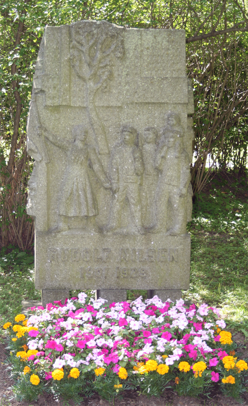 Grave of Rudolf Nilsen, Norwegian poet, in Oslo